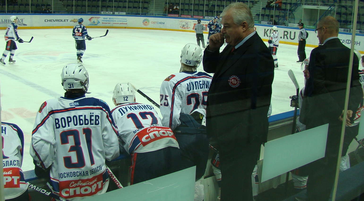 Kapitan Stupino bench during Minor Hockey League game in Khabarovsk, on December 12, 2012. Head coach Vladimir Plyuschev is in the front.